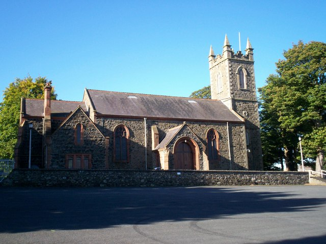 St Gobhan's parish church (Church of Ireland), Seagoe, Portadown, County Armagh, Northern Ireland. It was built in the 1810s, replacing a 15th-century church whose remains survive in Seagoe Cemetery.